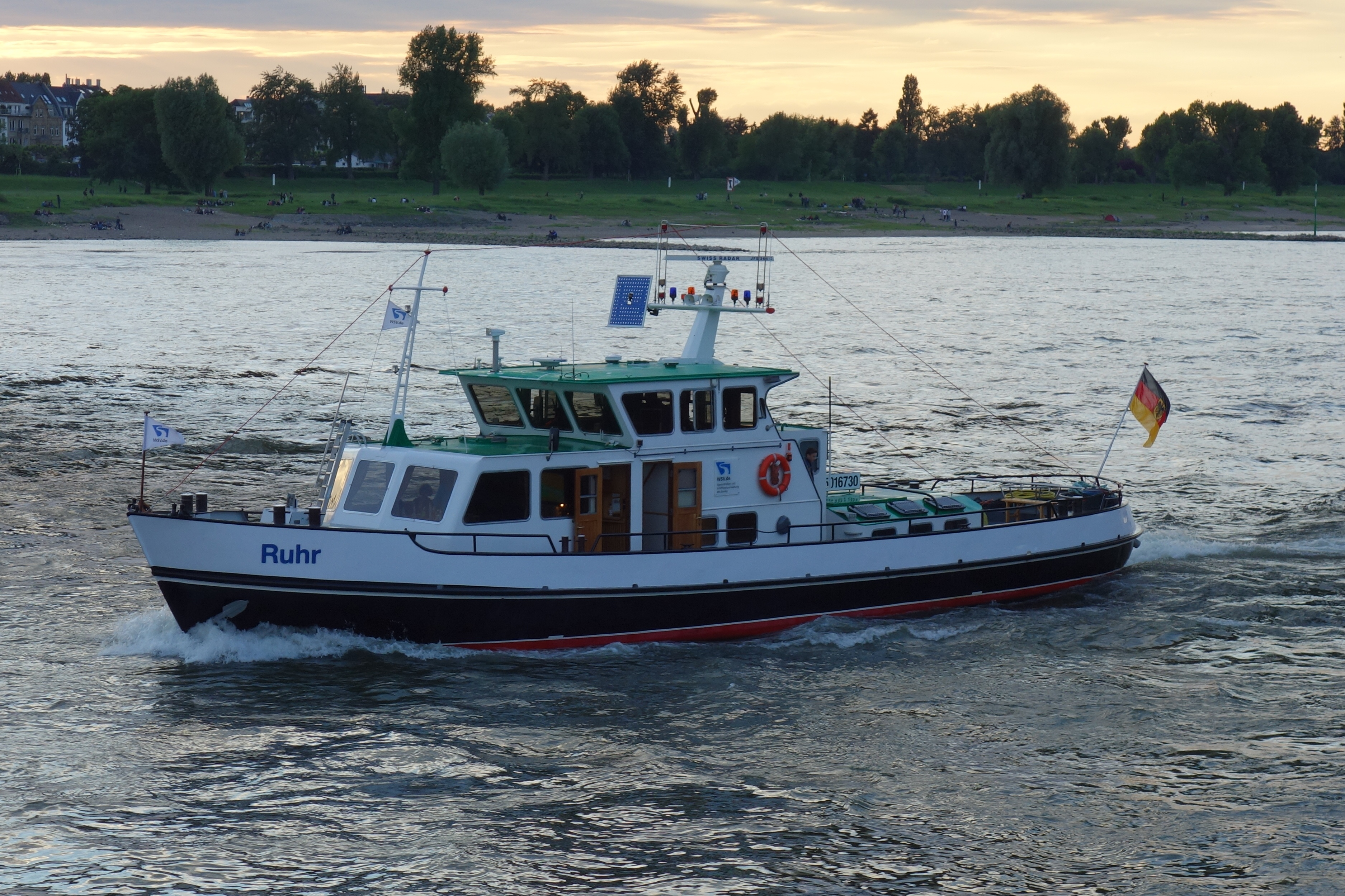 Motorship Ruhr passing Düsseldorf